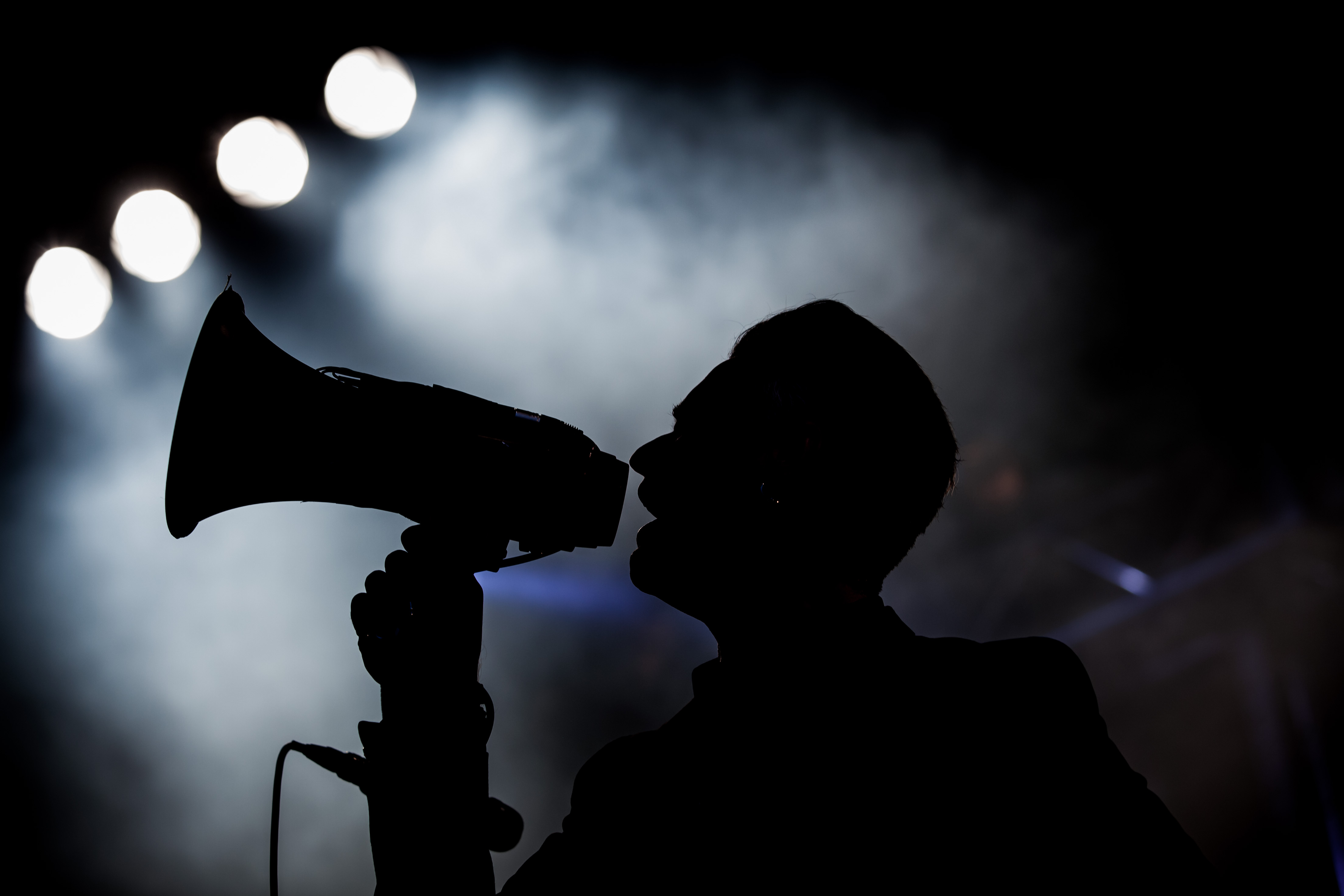 Kaizers Orchestra during Bukta open air festival 2013.